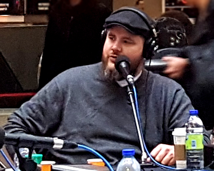 Actor Antoine Bertrand is a guest on the Radio-Canada's Première radio show Gravel le matin, broadcasted live from Montreal's Central Station on April 4th, 2017.